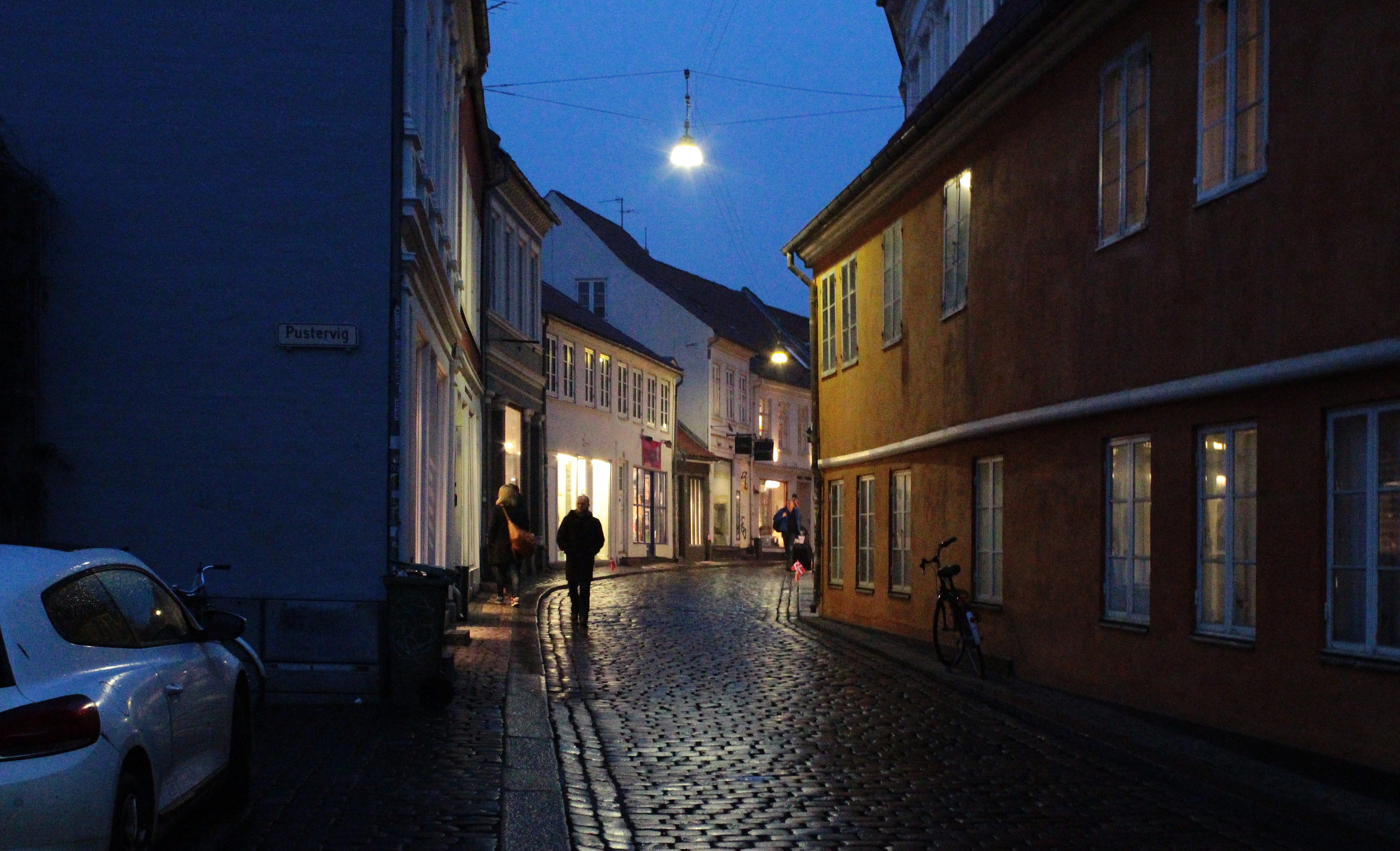 The street called "Volden" (